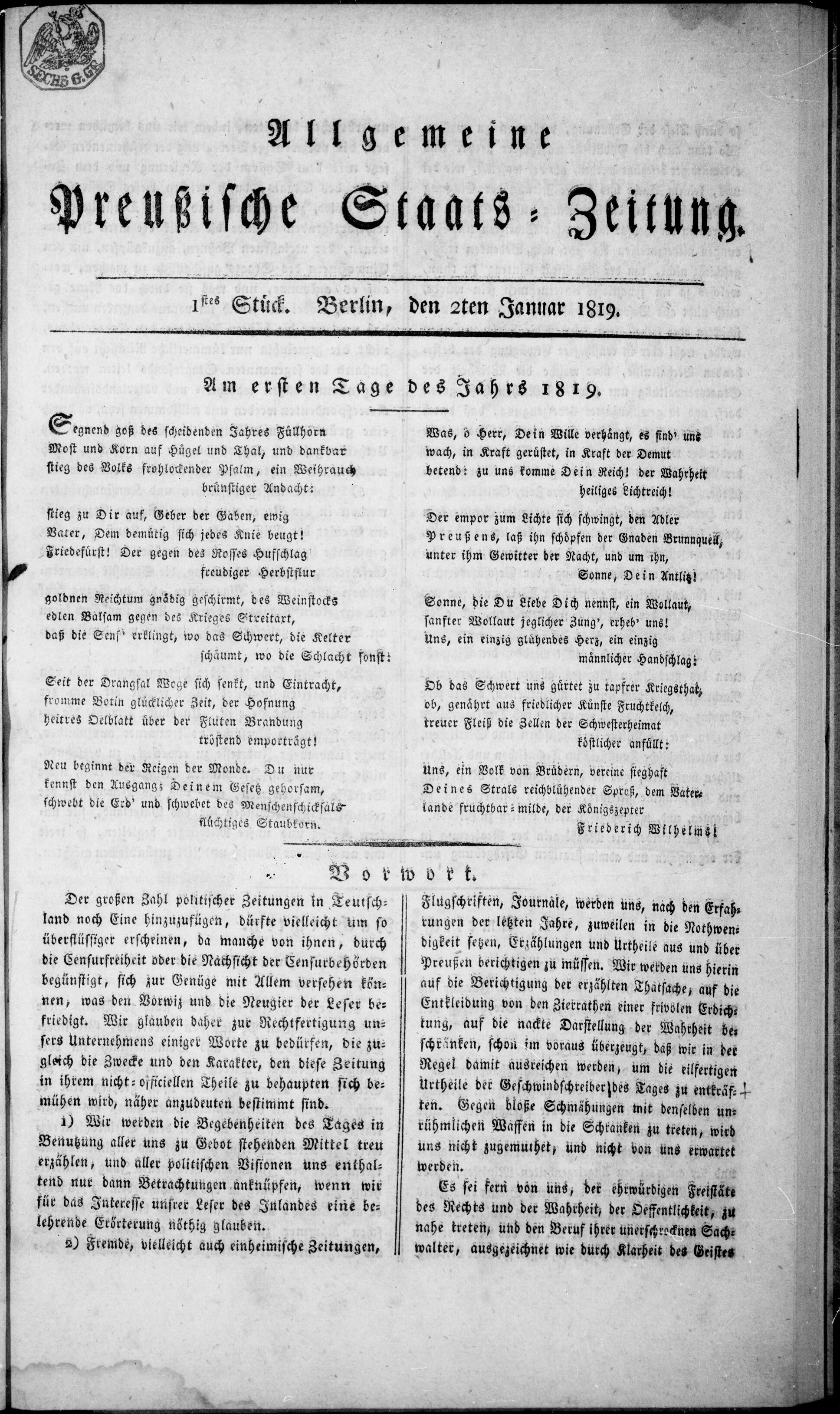 First page of the first issue of the Prussian governmental gazette "Allgemeine Preußische Staats-Zeitung"